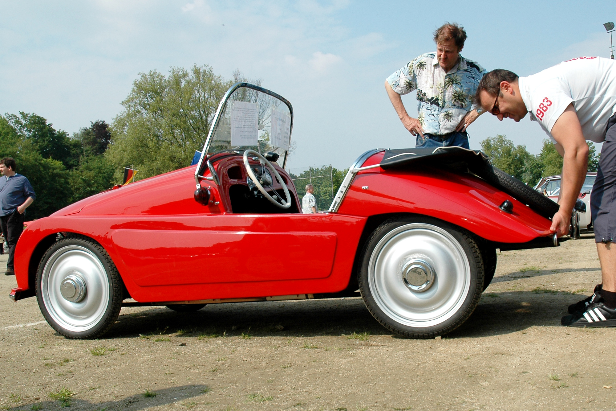 Kleinschnittger F125, 1952